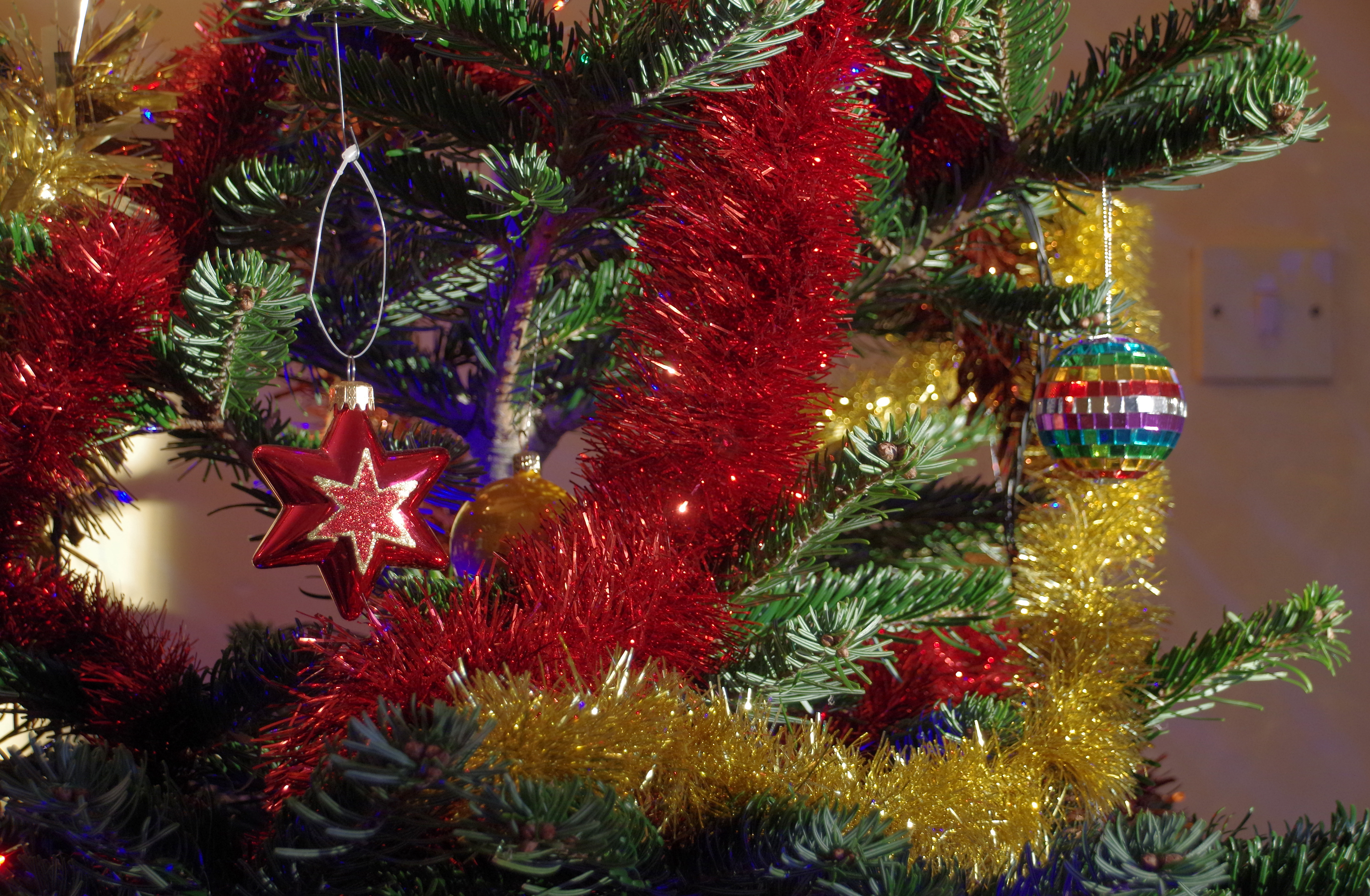 A Christmas tree in 2014.